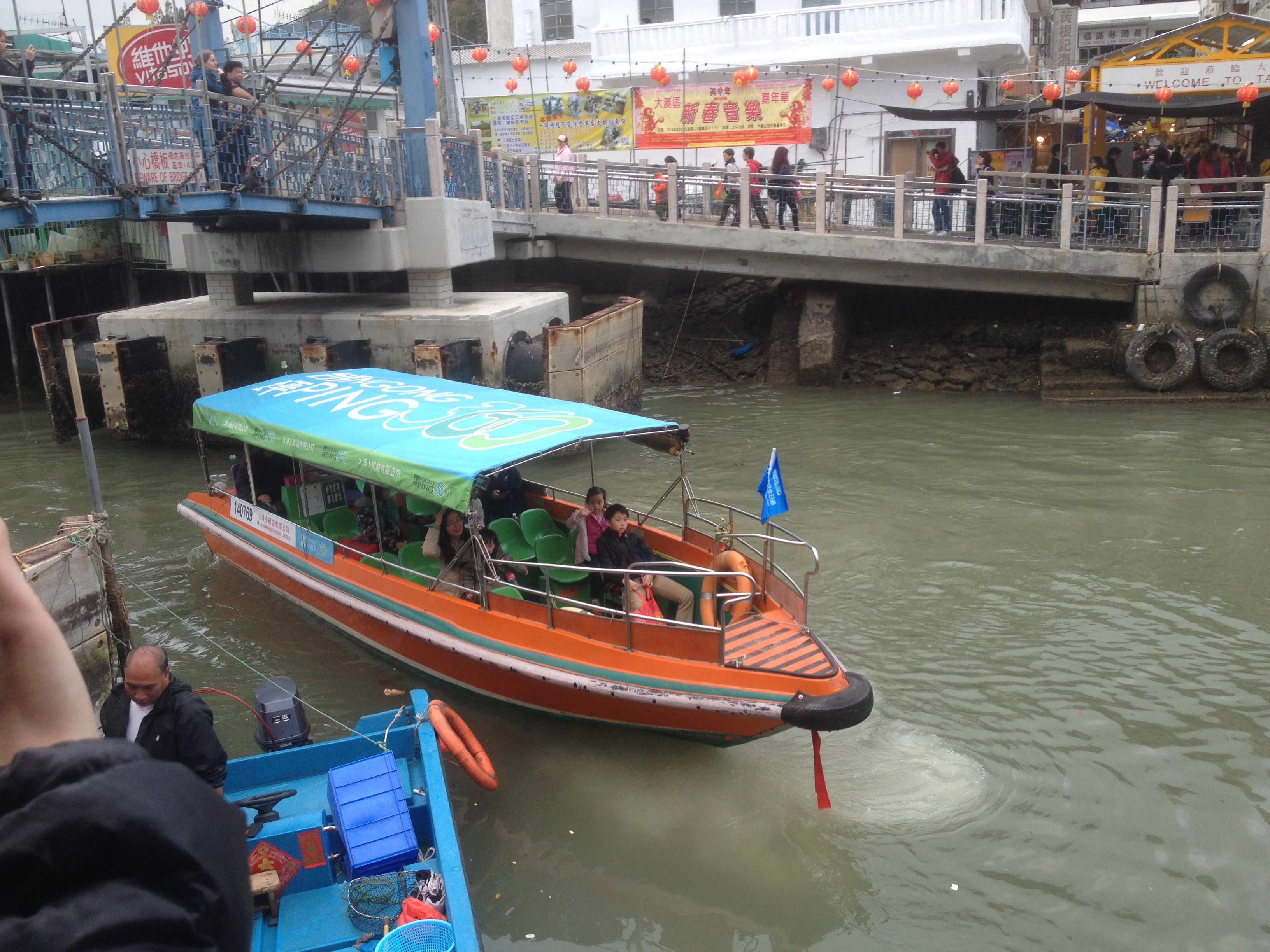 This photo is taken in Tai O.